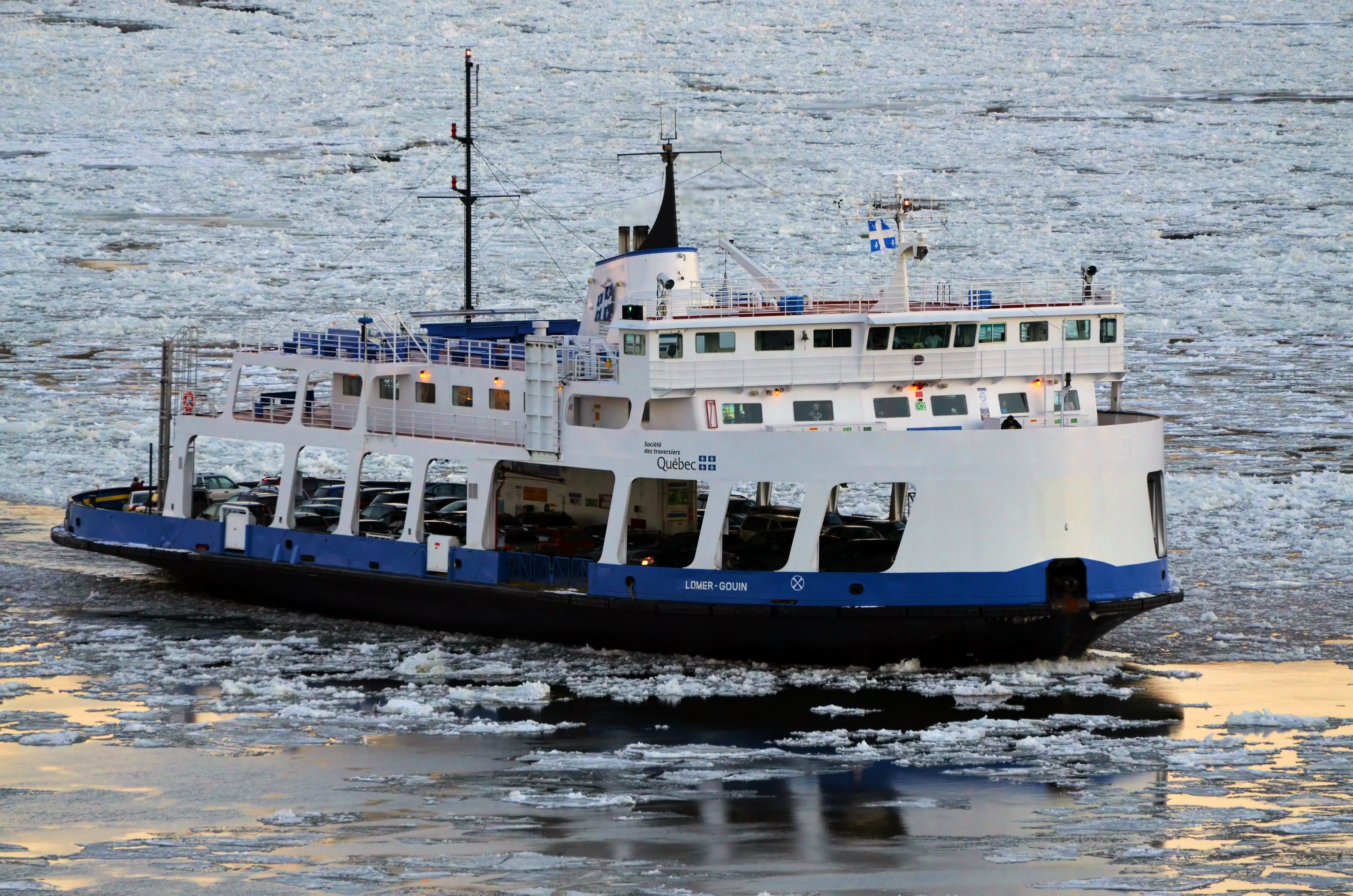 The Lomer-Gouin ferry over the St-Lawrence River in the province of Quebec (Canada). It crosses between Québec and Lévis.